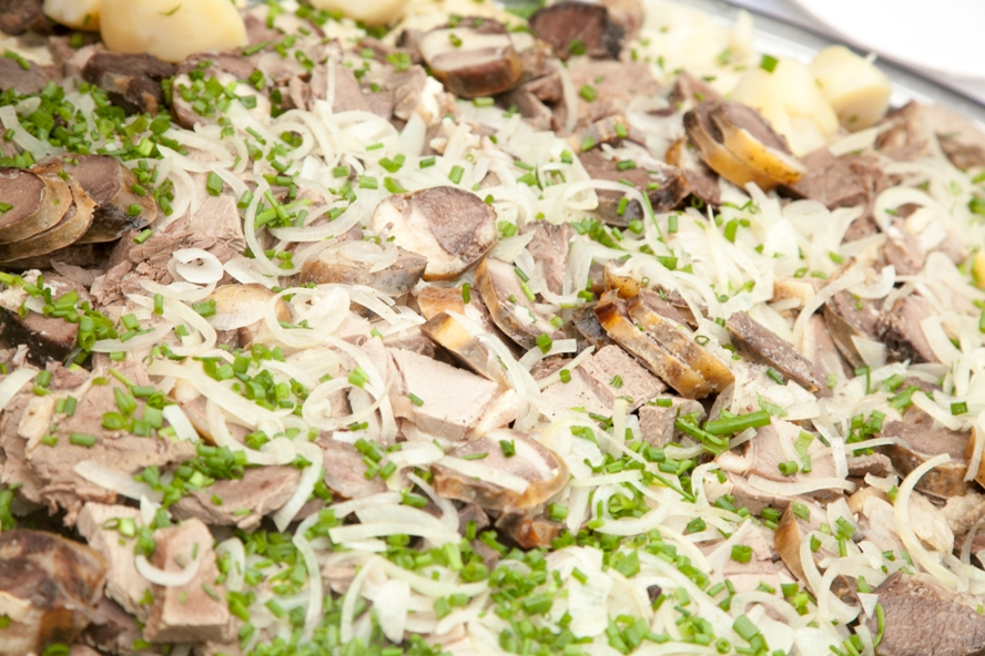 National Kazakh food Beshbarmak